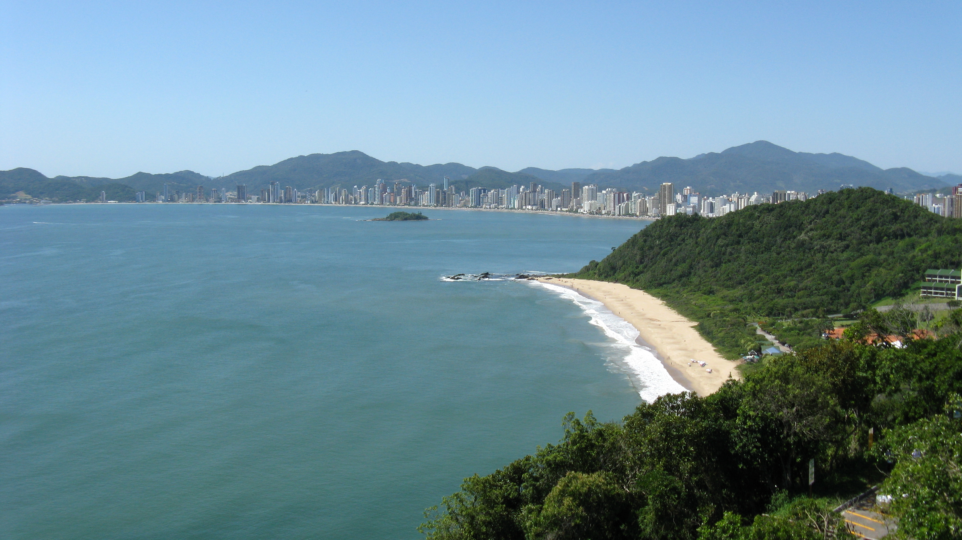 View of Baln. Camboriu central beach from "Morro do careca"